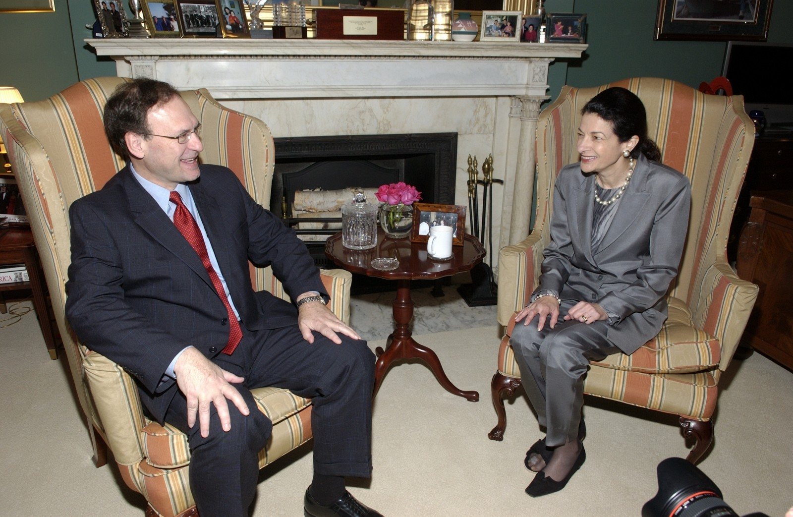 November 16, 2005- Snowe meets with U.S. Supreme Court nominee Judge Samuel Alito.